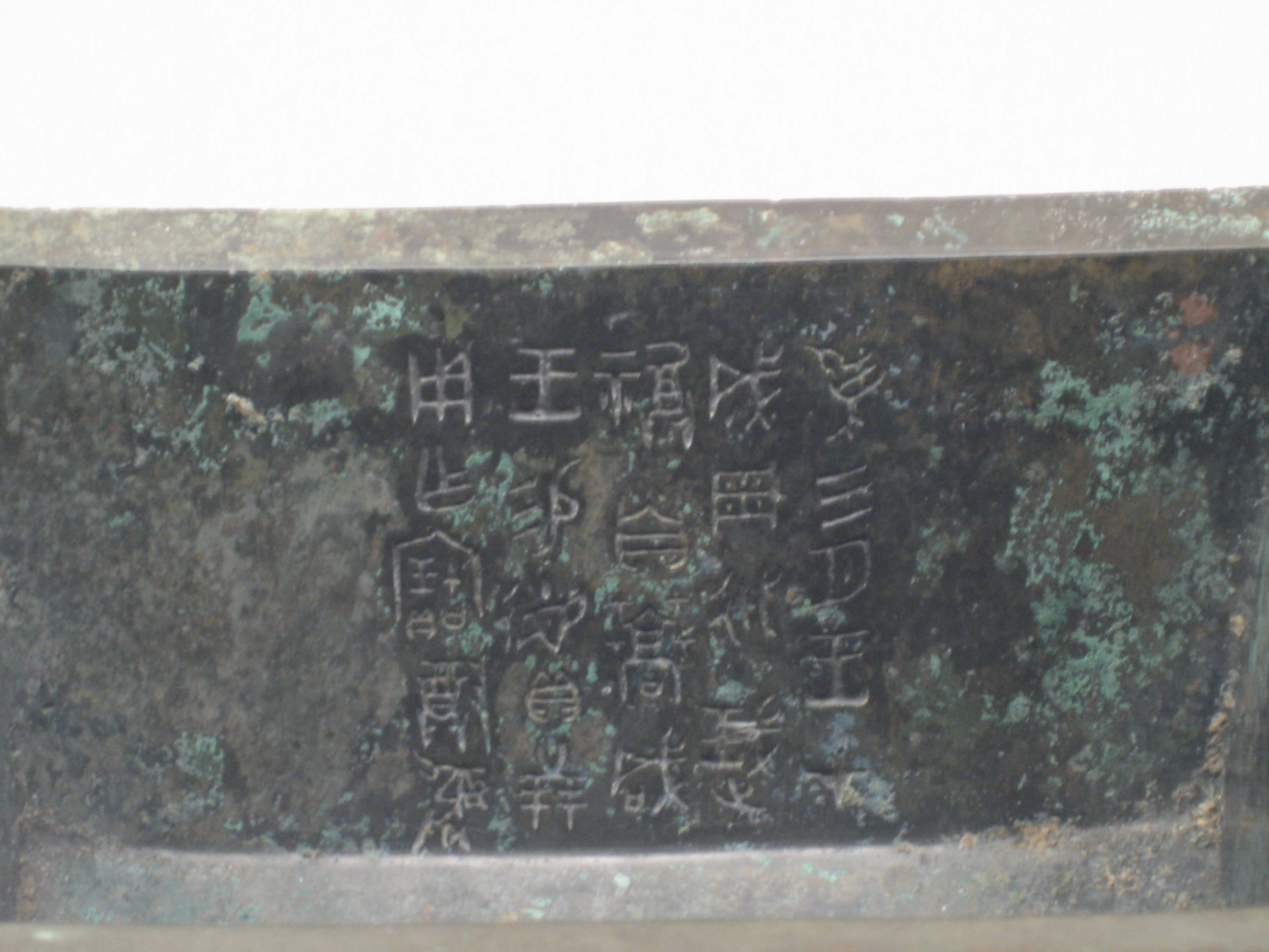 Western Zhou Dynasty (11 century BC) 德方鼎銘文